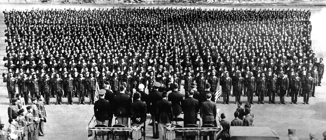 Naturalization ceremony for 1000 of the unit's soldiers